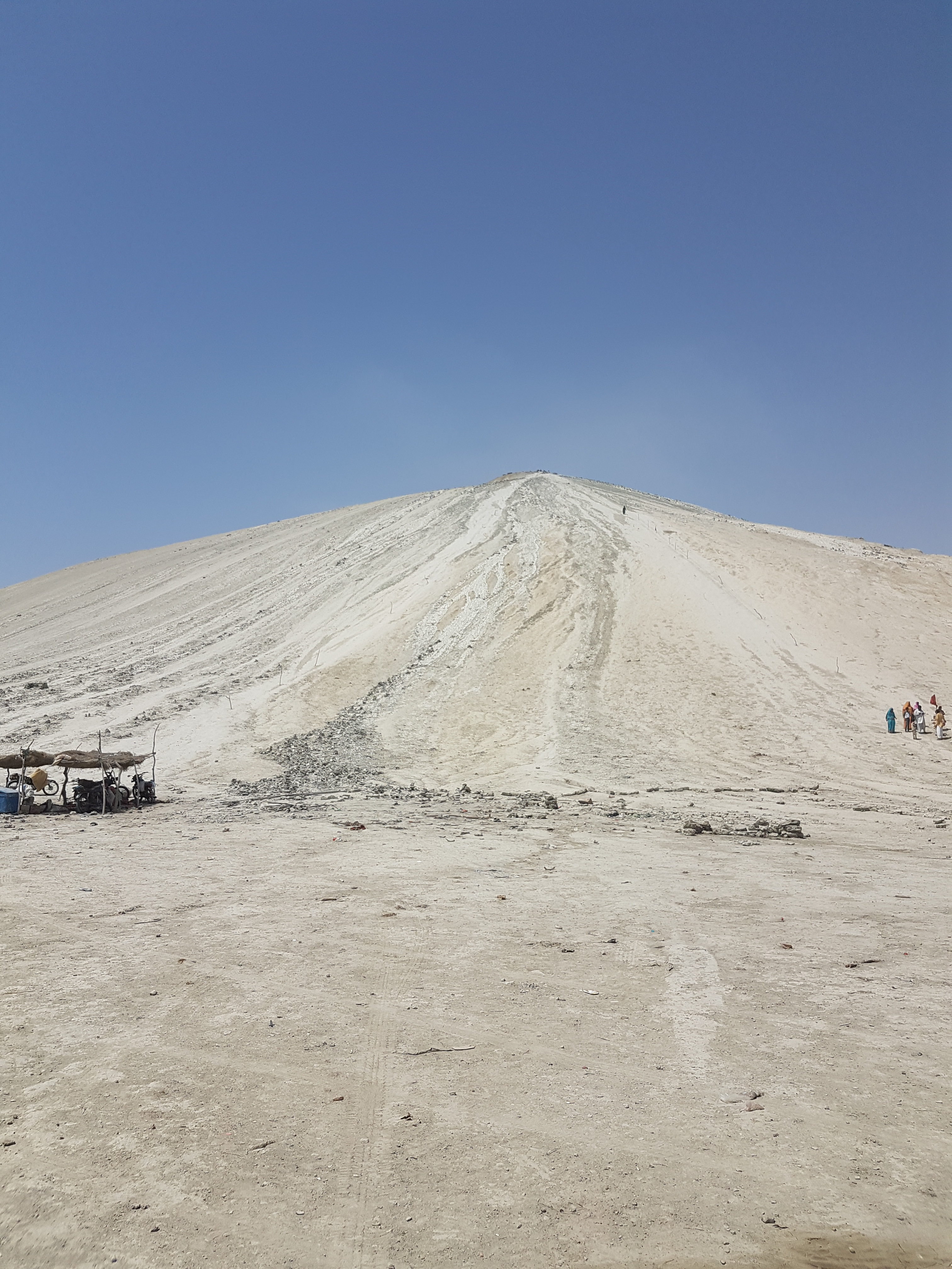 The view of Chandragup I mud volcano, Balochistan from the base. There is a new road built to access the Volcano site. After the road ends continue the journey towards the volcano on dry surface. The landsacpe is void of any tree or shade. The temperature is boiling hot during the day so make sure you are properly hydrated before you climb up the mud volcano. There are two routes on the northern face to climb up with rope to assist the climb and the local person who has installed them charges Rs. 10 for it. The top of mud volcano is flat filled with mud but do not step into it. It's more of a quick sand but much dangerous as it is deep and the texture of mud is thin with bursts of bubbles of hot air coming to the surface occasionally. Do not get down from the alternate route from the otherside. It looks easier but once you get down there is a maze of deep pits and paths before you reach the ground. Use the northern face to climb the Volacno and for the decent. Avoid southern part.